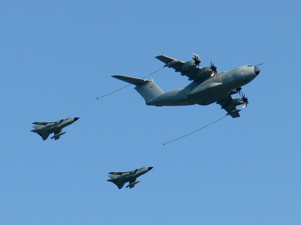 A400M demonstrates refuelling of two Tornado jets